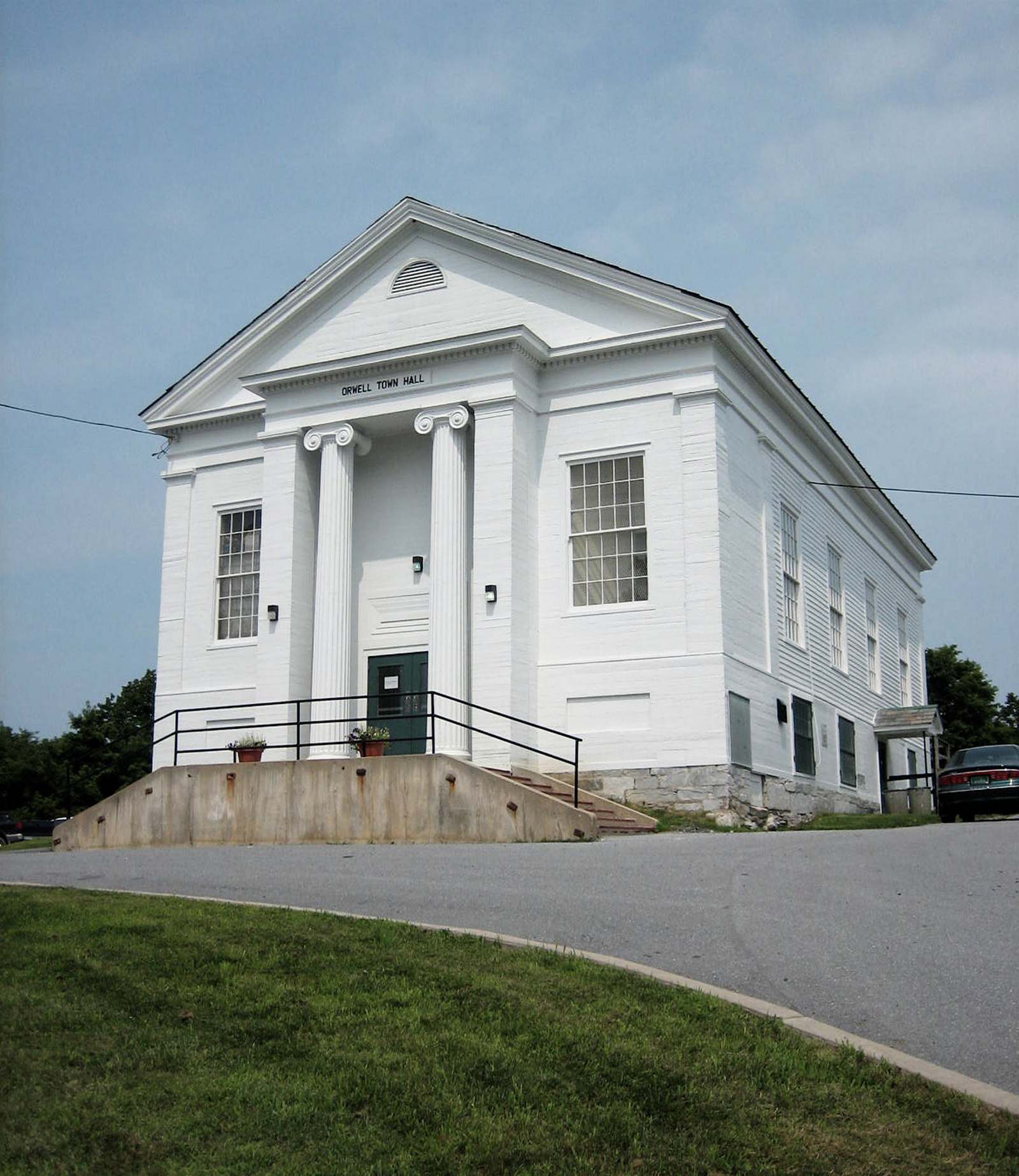 Orwell Vermont Town Hall on Route 73 in Orwell